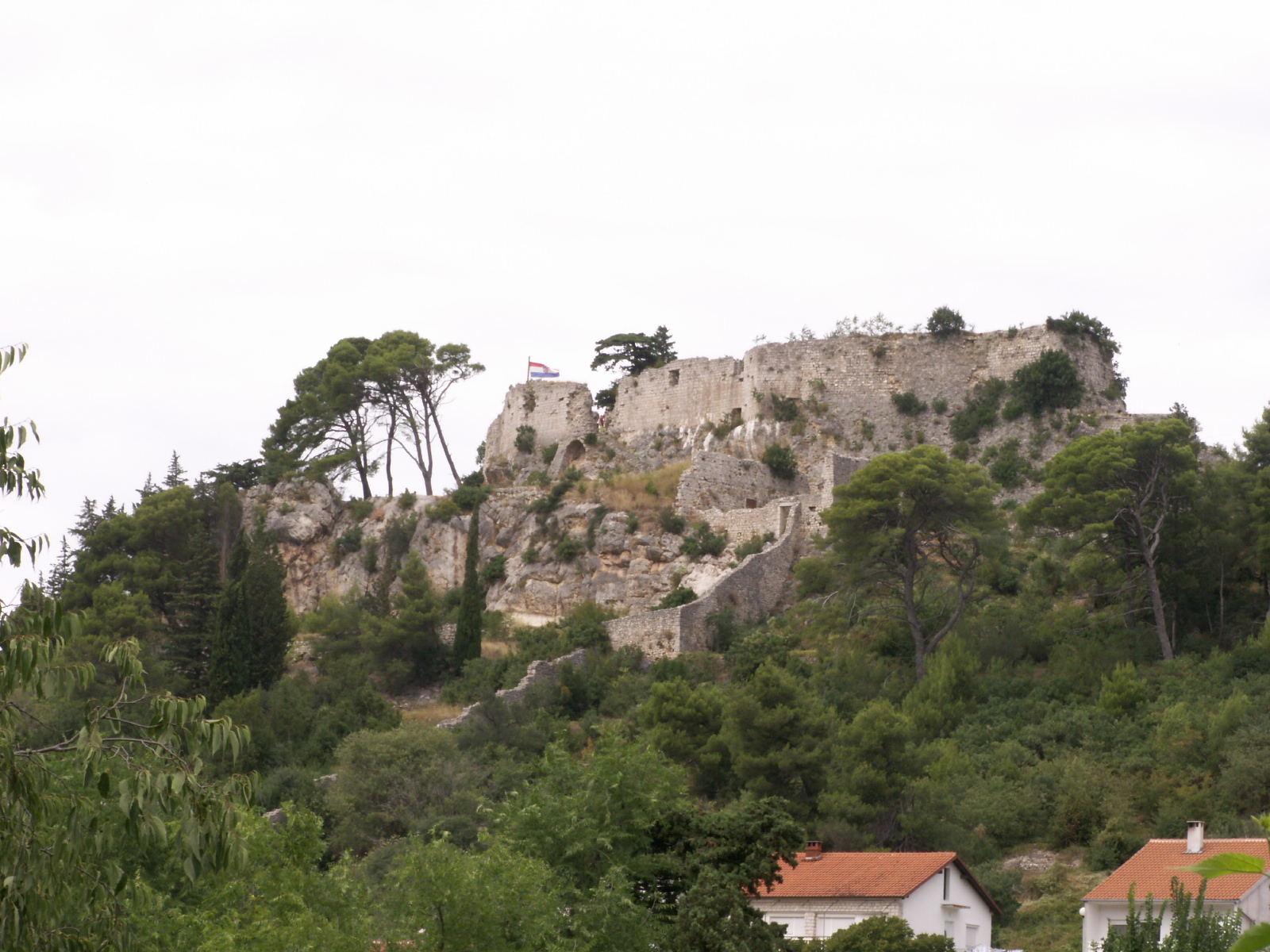 Castle of Novigrad (Zadar) in 2009